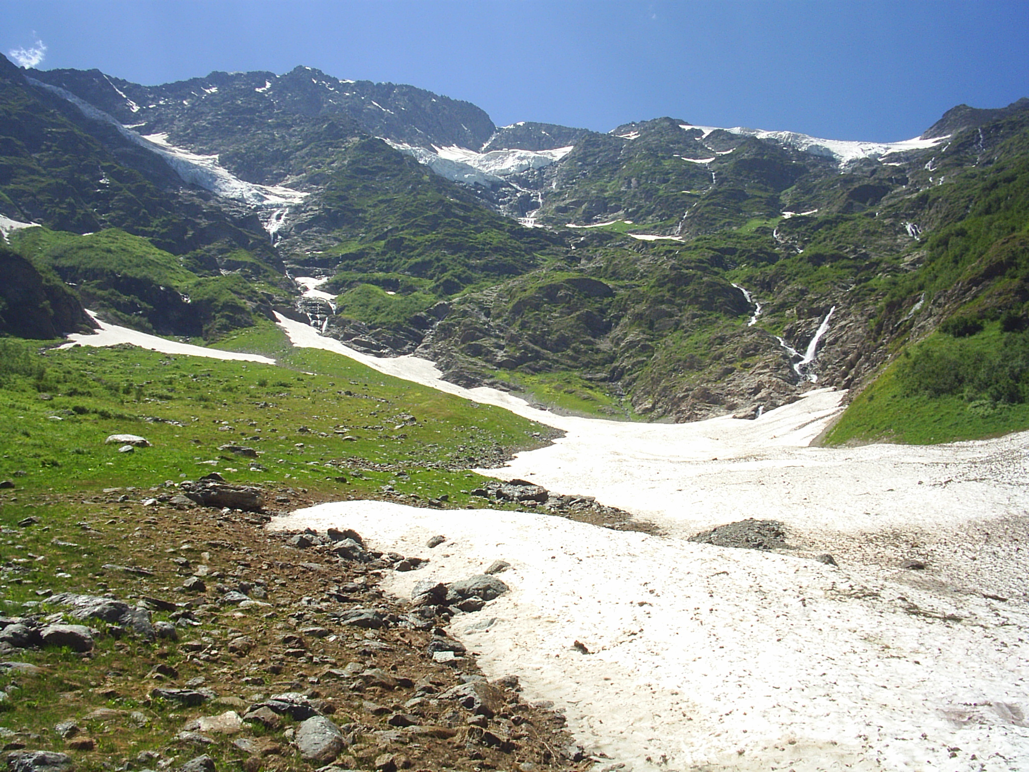 Mount Tsahvoa, Western Caucasus